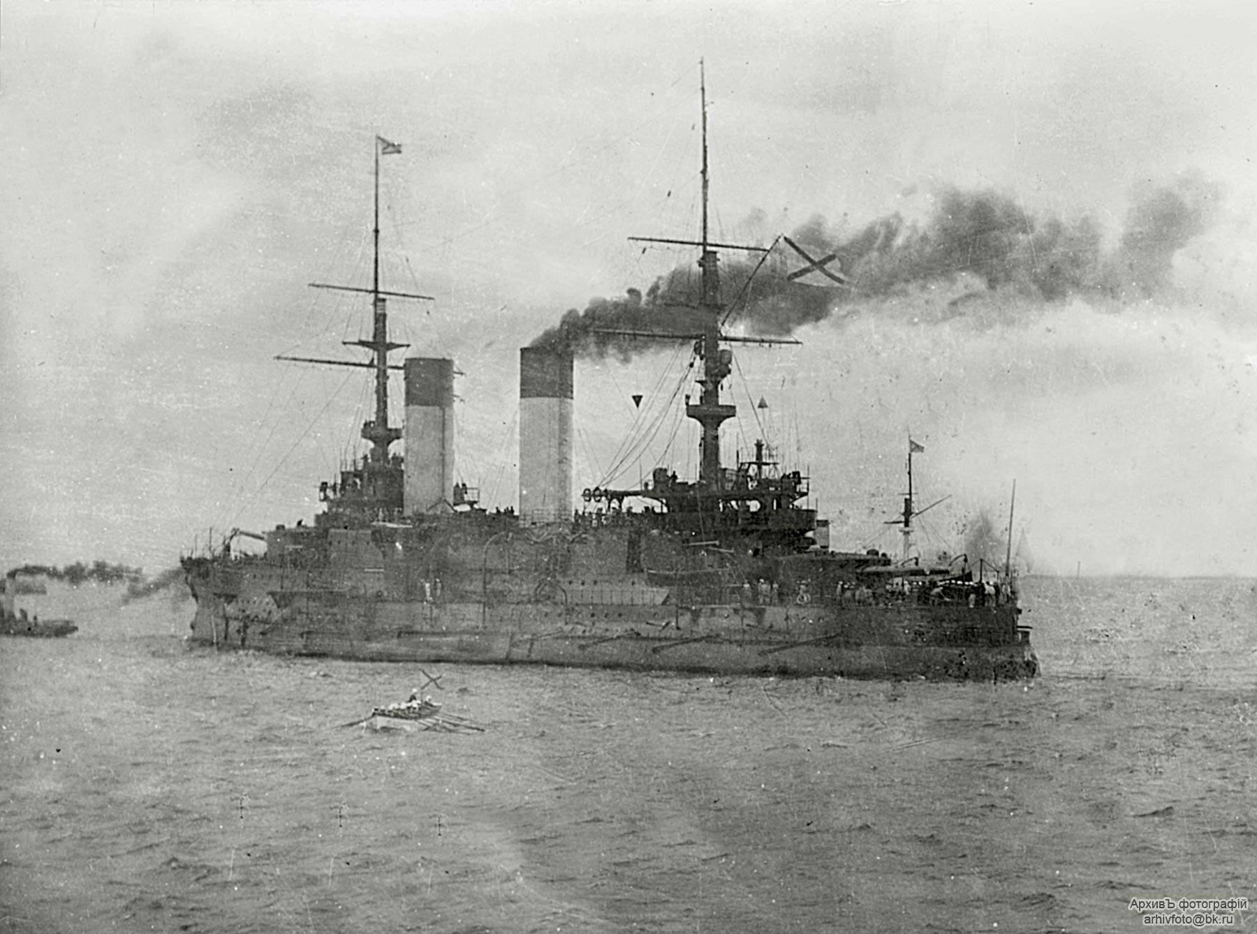 Orel under tow, Kronstadt, October 1904